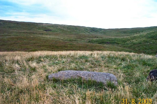 Ted Hughes. Ted Hughes's memorial stone on top of a grassy mound (SX 609865)- probably once the spoil heap of medieval tinners. The Taw valley lies behind.